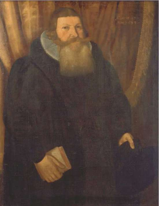 Portrait of Anders Arrebo for the parish church Vordingborg, Denmark